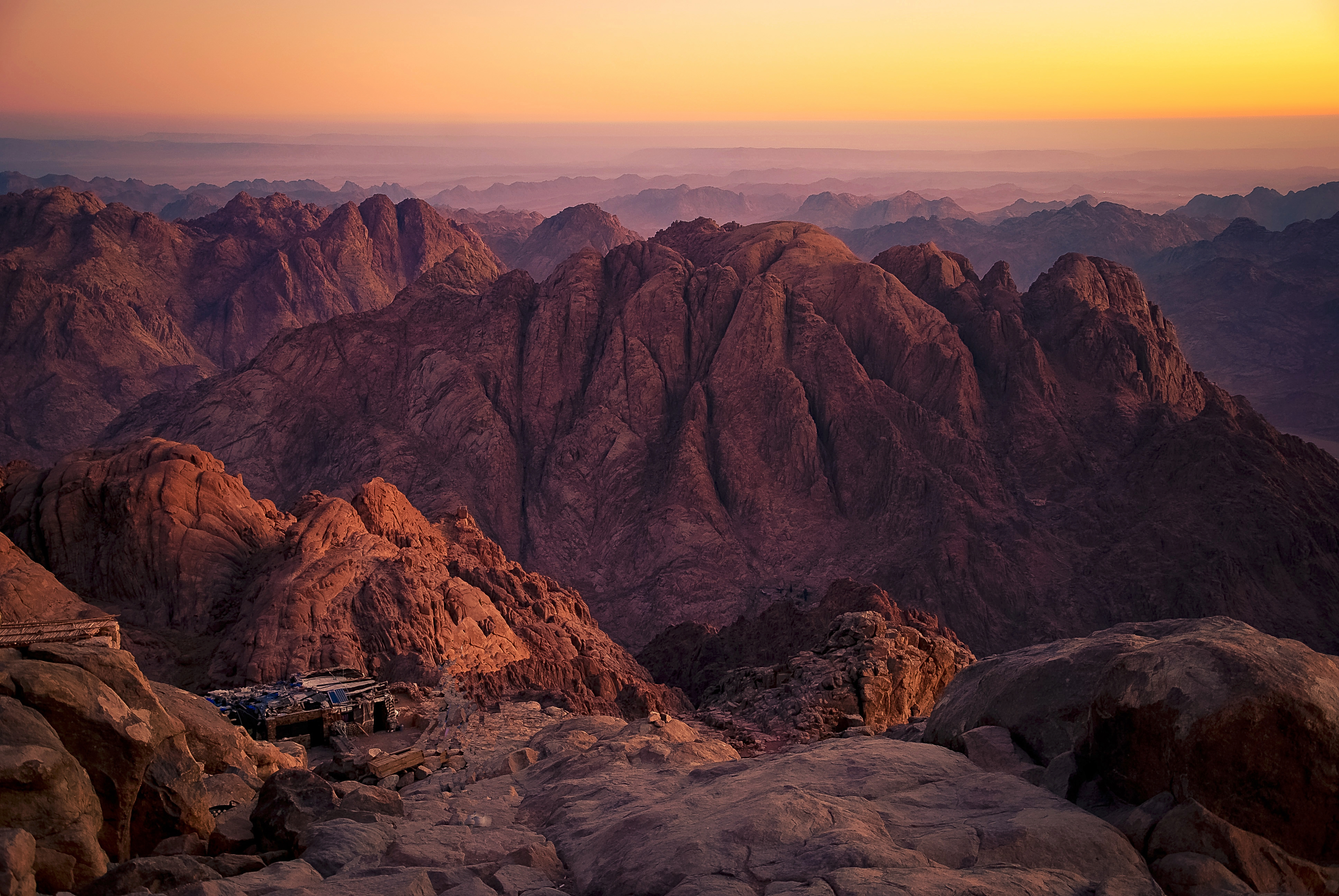 Mount Sinai (Arabic: طور سيناء Ṭūr Sīnāʼ or جبل موسى Jabal Mūsá ; Egyptian Arabic: Gabal Mūsa, lit. "Moses' Mountain" or "Mount Moses"; Hebrew: הר סיני Har Sinai ), also known as Mount Horeb, is a mountain in the Sinai Peninsula of Egypt that is the traditional and most accepted identification of the biblical Mount Sinai. The latter is mentioned many times in the Book of Exodus in the Torah, the Bible,[1] and the Quran.[2] According to Jewish, Christian and Islamic tradition, the biblical Mount Sinai was the place where Moses received the Ten Commandments.